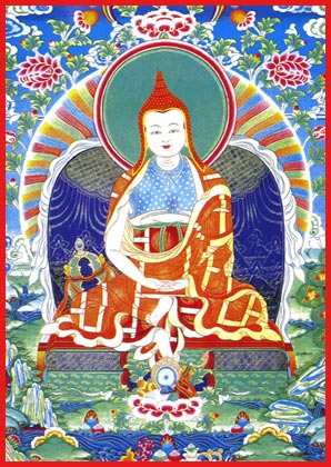 Manjushrimitra, famous ancient Indian Buddhist Scholar